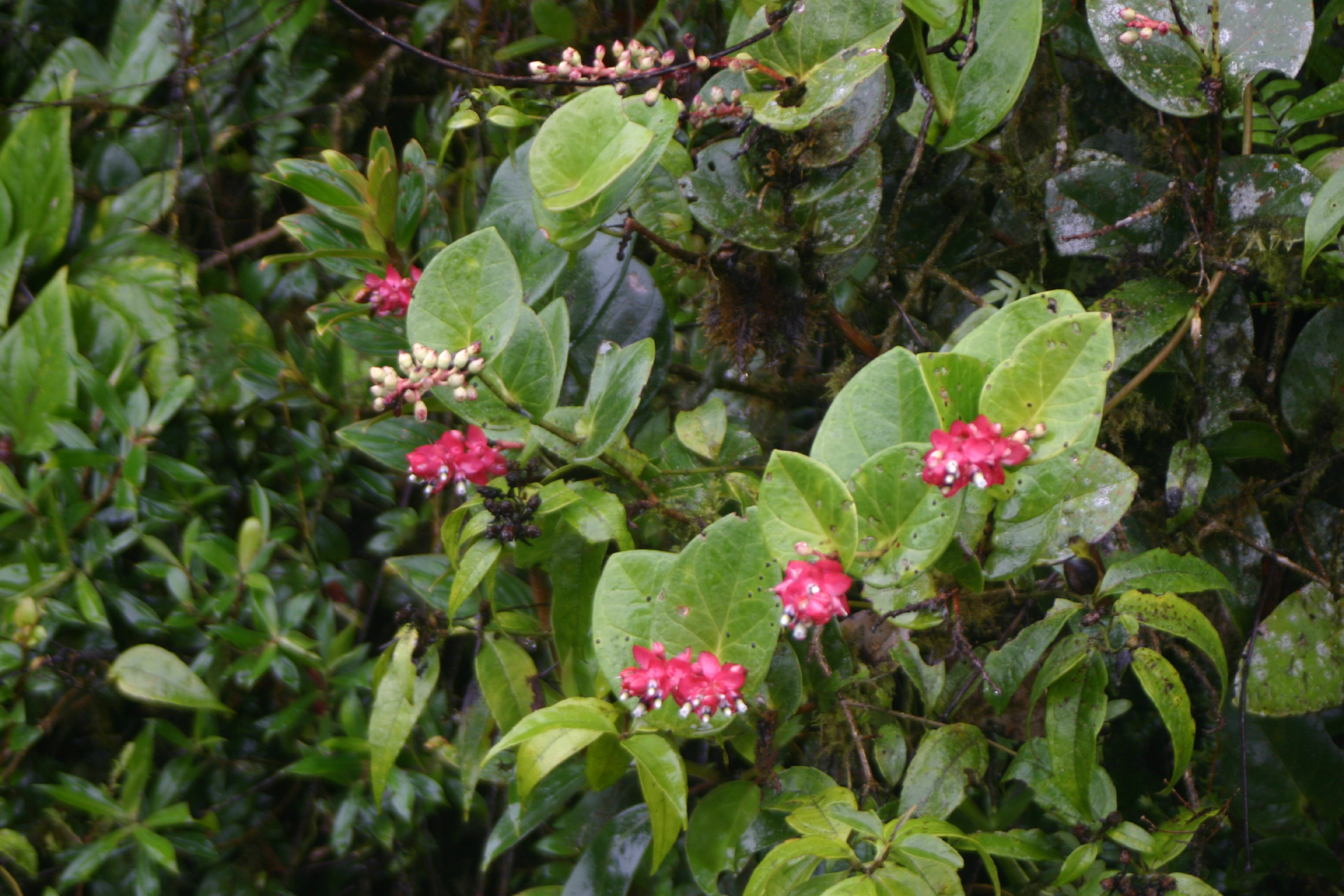 The brightly colored bracts of this shrub made it relatively easy to pick out among the canopy branches where it was growing. Trying to identify where the shrub ended and the tree began was much a much more challenging task, however.